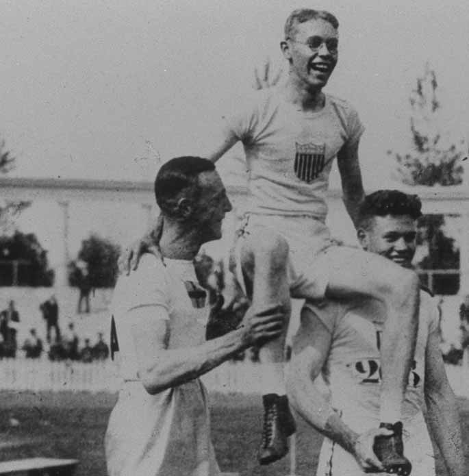 Left-right: Bo Ekelund, Richmond Landon and Harold Muller at the 1920 Olympics